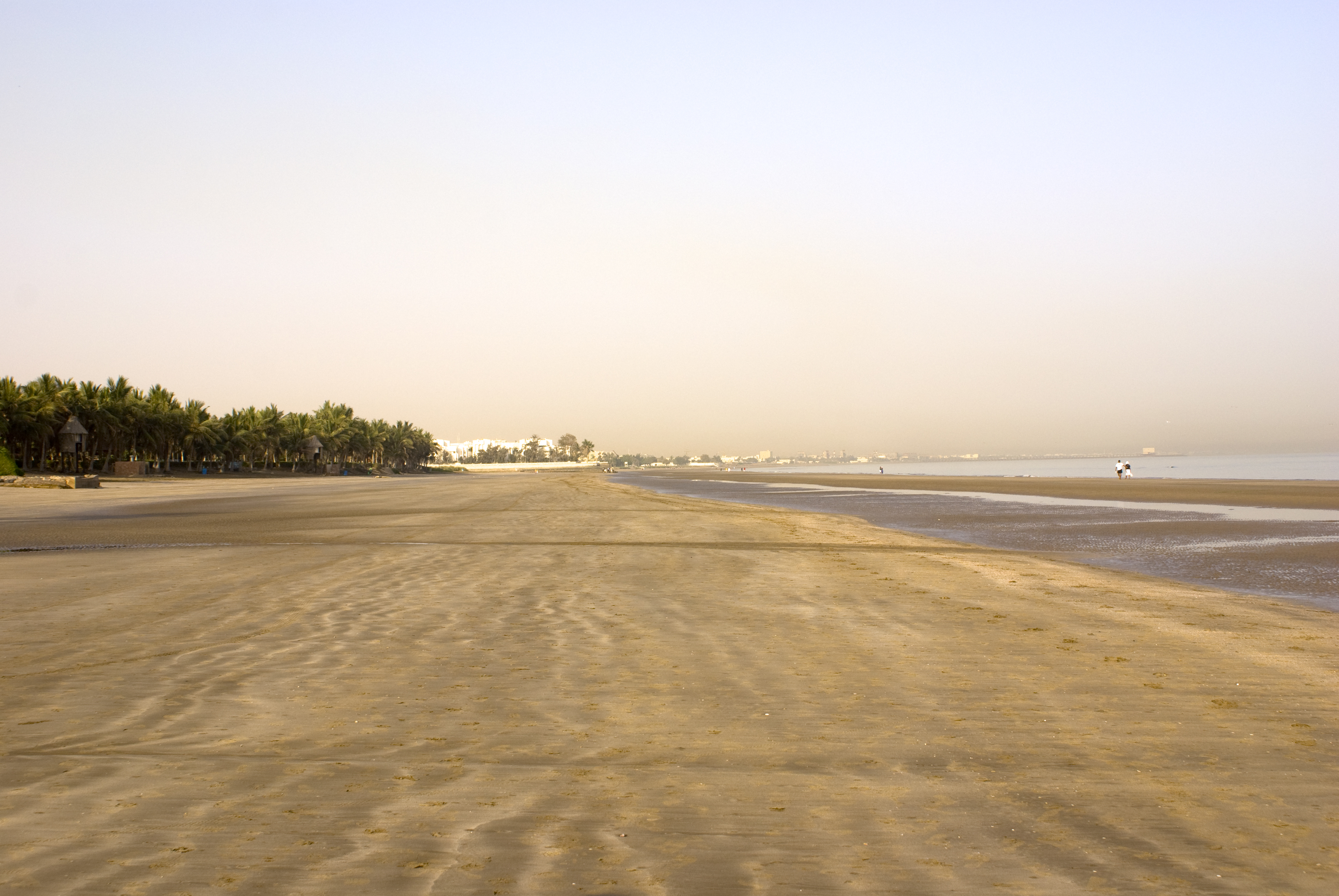 Beach in Muscat